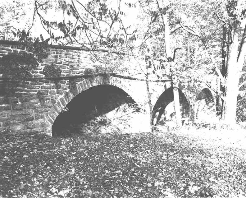 Side of the County Bridge No. 124, which carries Edges Mill Road over Beaver Creek in Caln Township, Chester County, Pennsylvania, United States. Built in 1924, this three-span stone arch bridge is listed on the National Register of Historic Places.